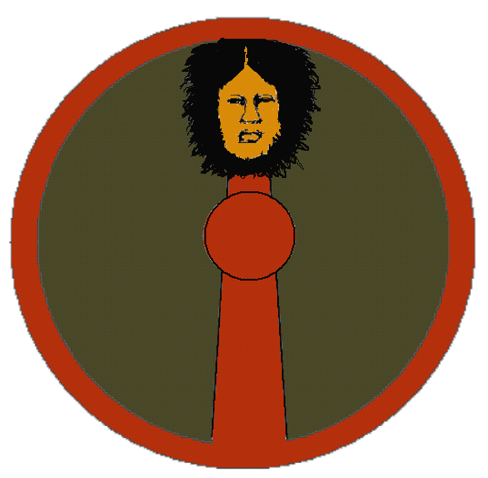 Shield pattern o.t. Victores iuniores, listed as one of auxilia palatina units in the Magister Peditum's infantry roster; it assigned to the Comes Hispenias., Notitia Dignitatum, 5th century (Bodleian Manuscript).